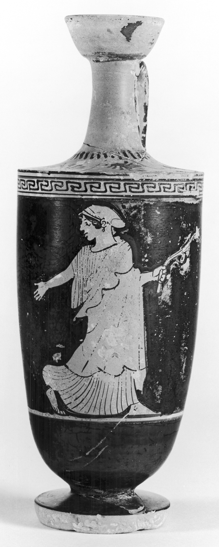 This shoulder lekythos depicts a woman to the right, looking around. In her left hand she holds a spring with a bud, while extending her right arm back, her fingers spread. She wears a chiton, mantle, sakkos, and earring.